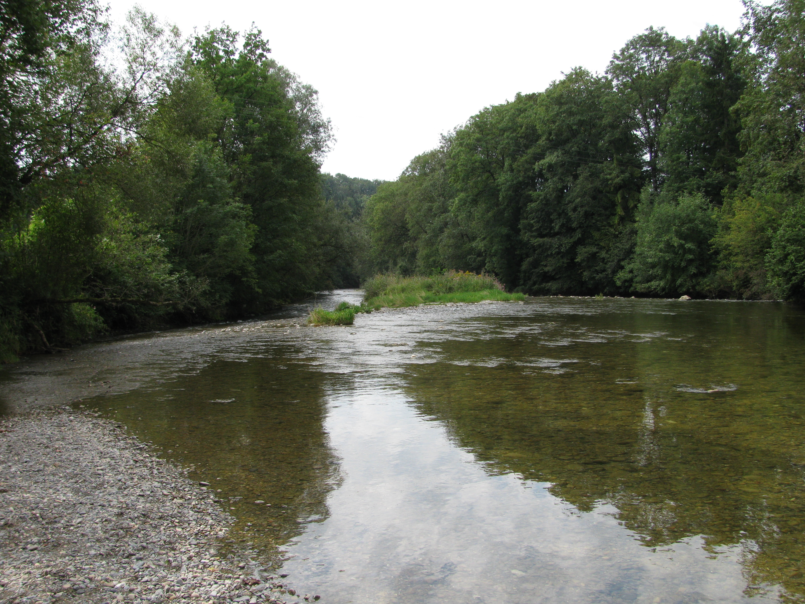 Germany - Baden-Württemberg - district Ravensburg: river 'Untere Argen' between highway 96 and Amtzell-Geiselharz